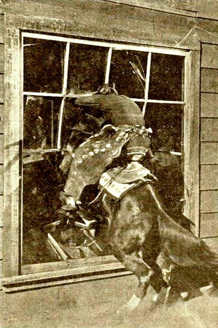 Still from the American film Hell-Roarin' Reform (1919) with Tom Mix, on page 1195 of the March 1, 1919 Moving Picture World. The still was used in an article discussing a trend towards realism in film and the danger from actors engaging in stunts. The film required Mix to ride a horse through a window, which resulted in some cuts to the actor. For the film, Mix did the stunts himself.